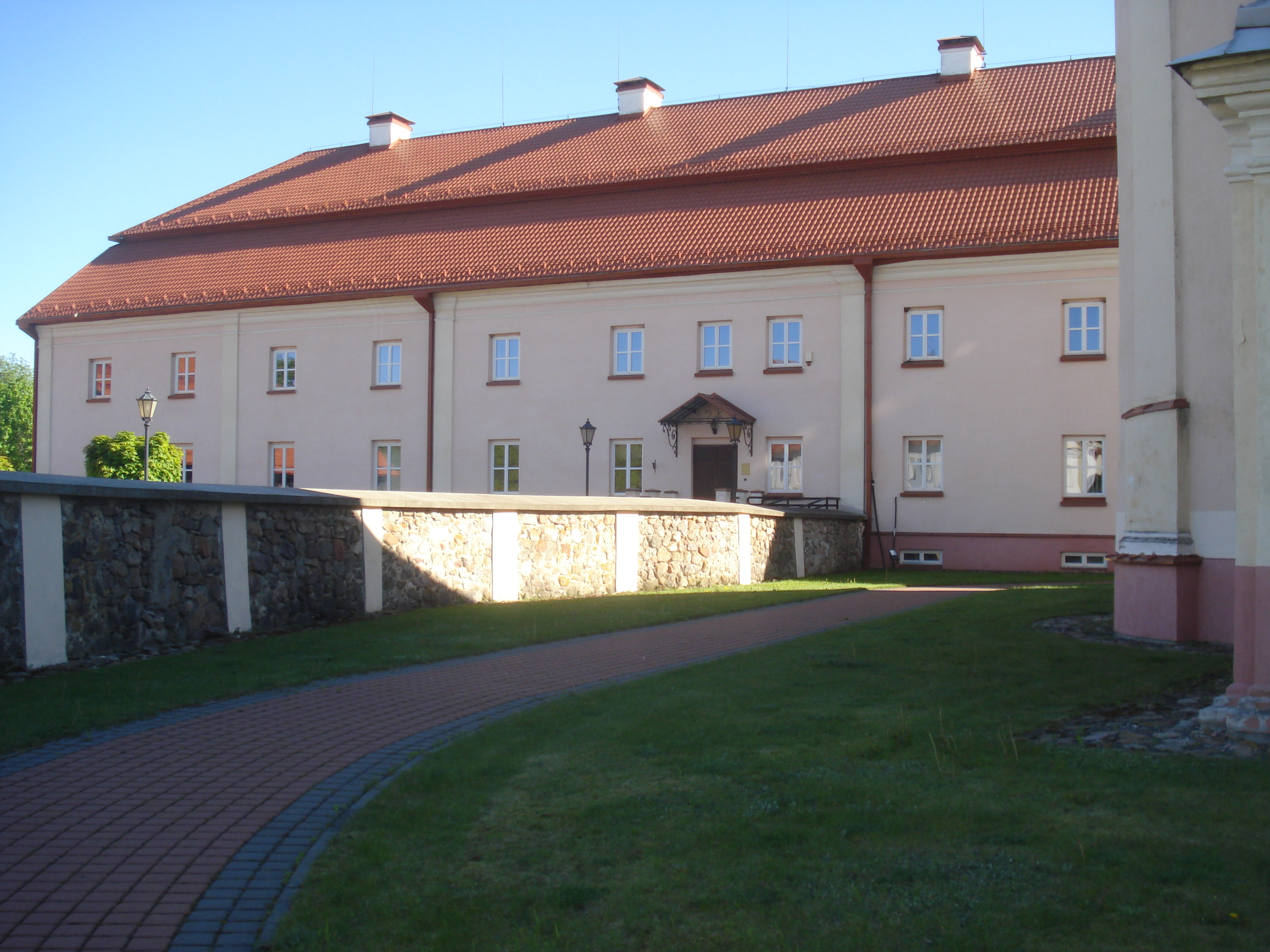 Dominican monastery in Liškiava, Lithuania